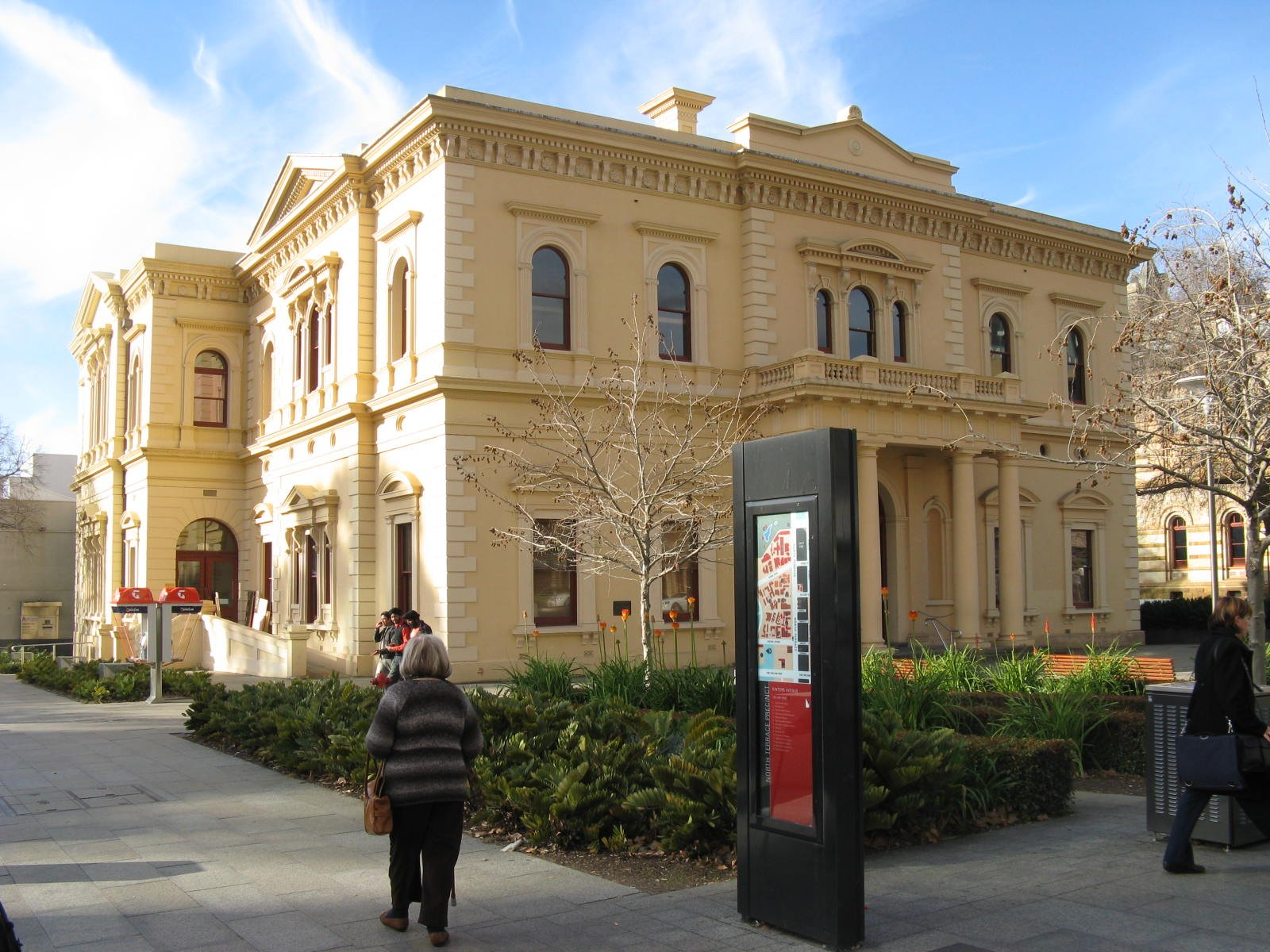 Old State Library Building and Institute Building, North Terrace, Adelaide, Winter 2008.